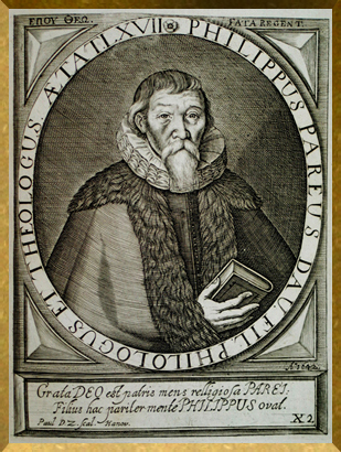 Johann Philipp Pareus (1576-1648), german classical scholar and teacher